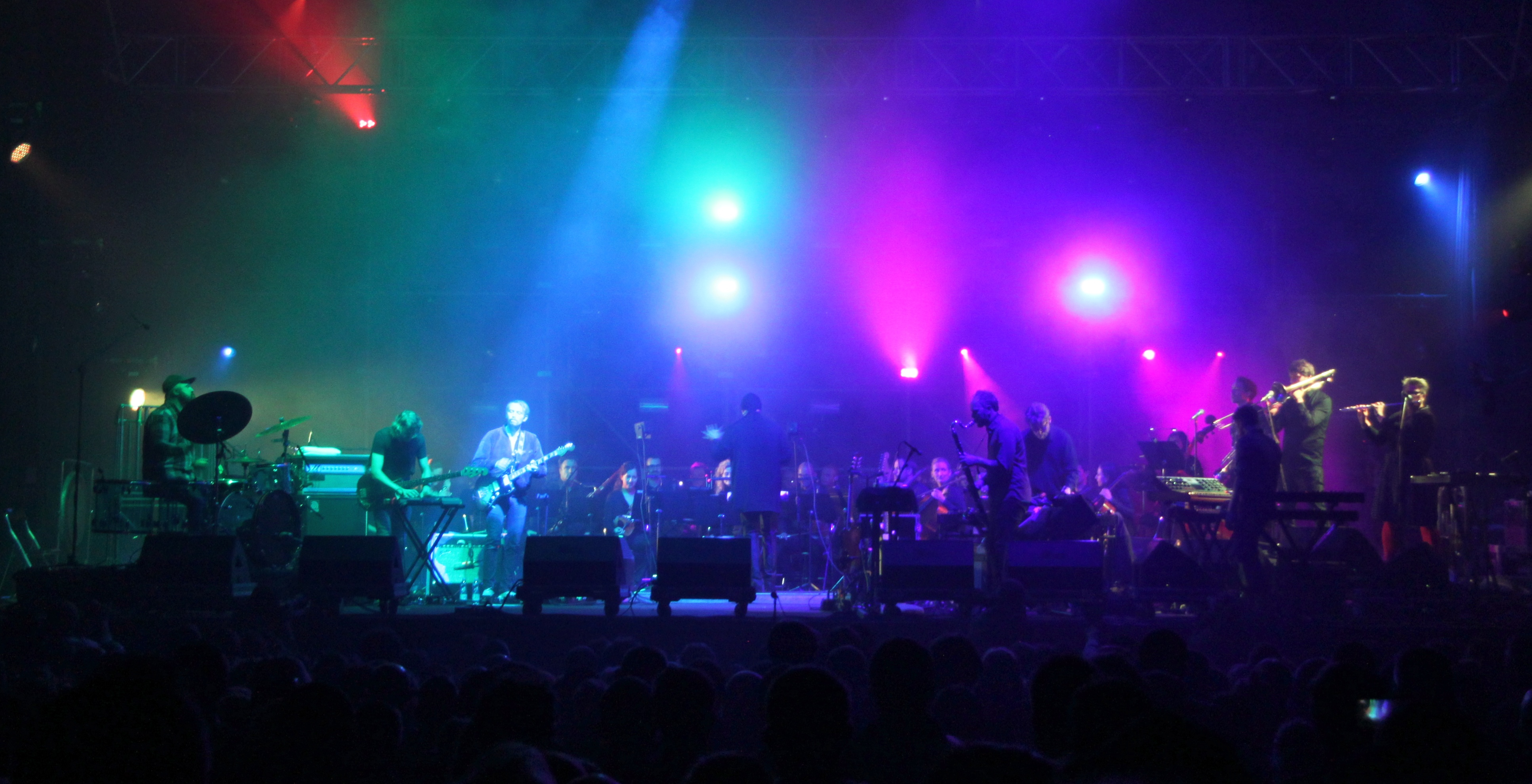 Jaga Jazzist during Tauron Nowa Muzyka 2014 festival.